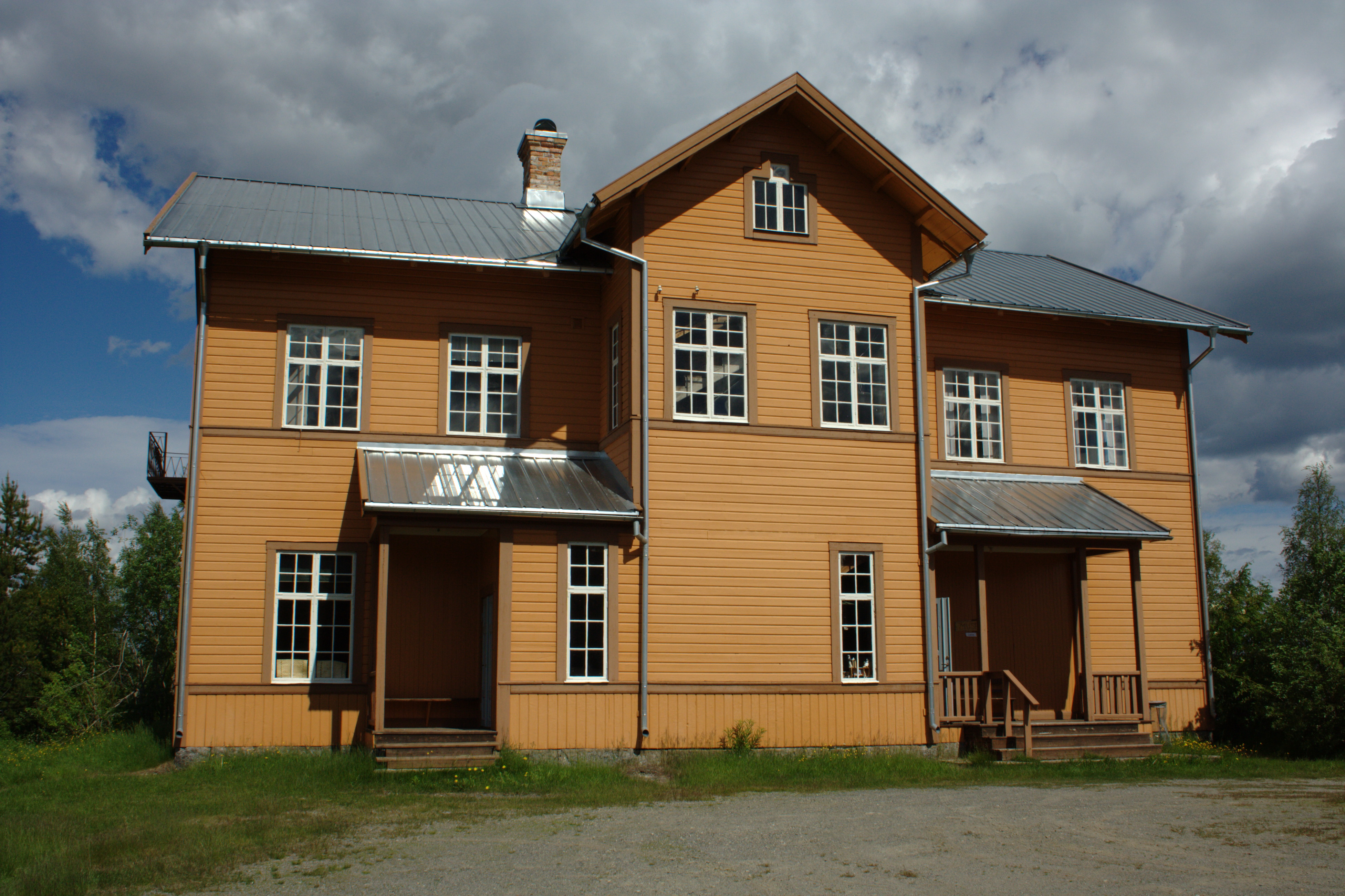 First school building in Gunnarn